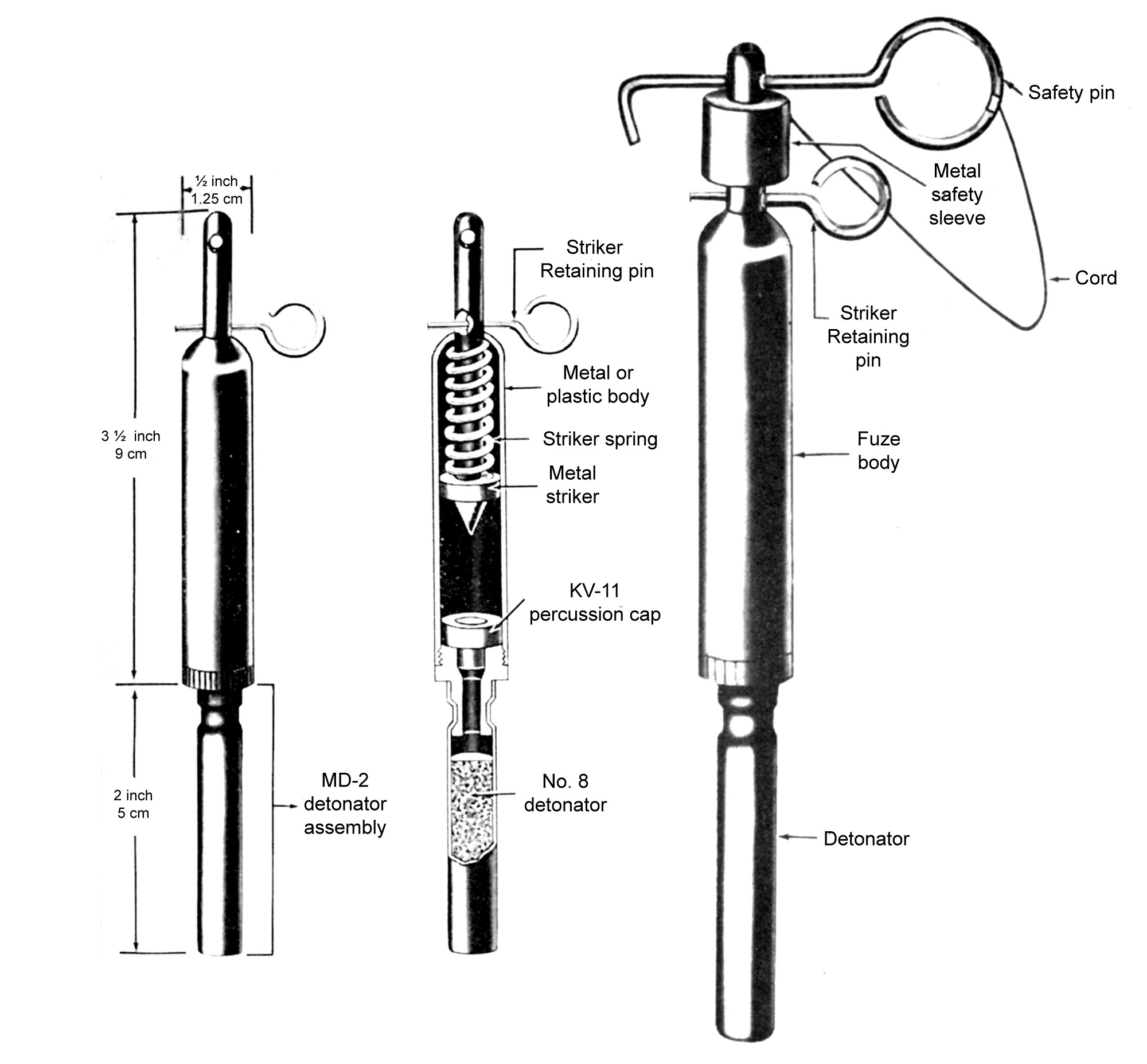 A Russian MUV pull fuze used for booby-trap purposes. Typically, a trip-wire would be attached to the striker retaining pin. Once the safety pin is removed, pressure on the trip-wire pulls the retaining pin free, allowing the spring to push the striker into the percussion cap, activating the detonator.